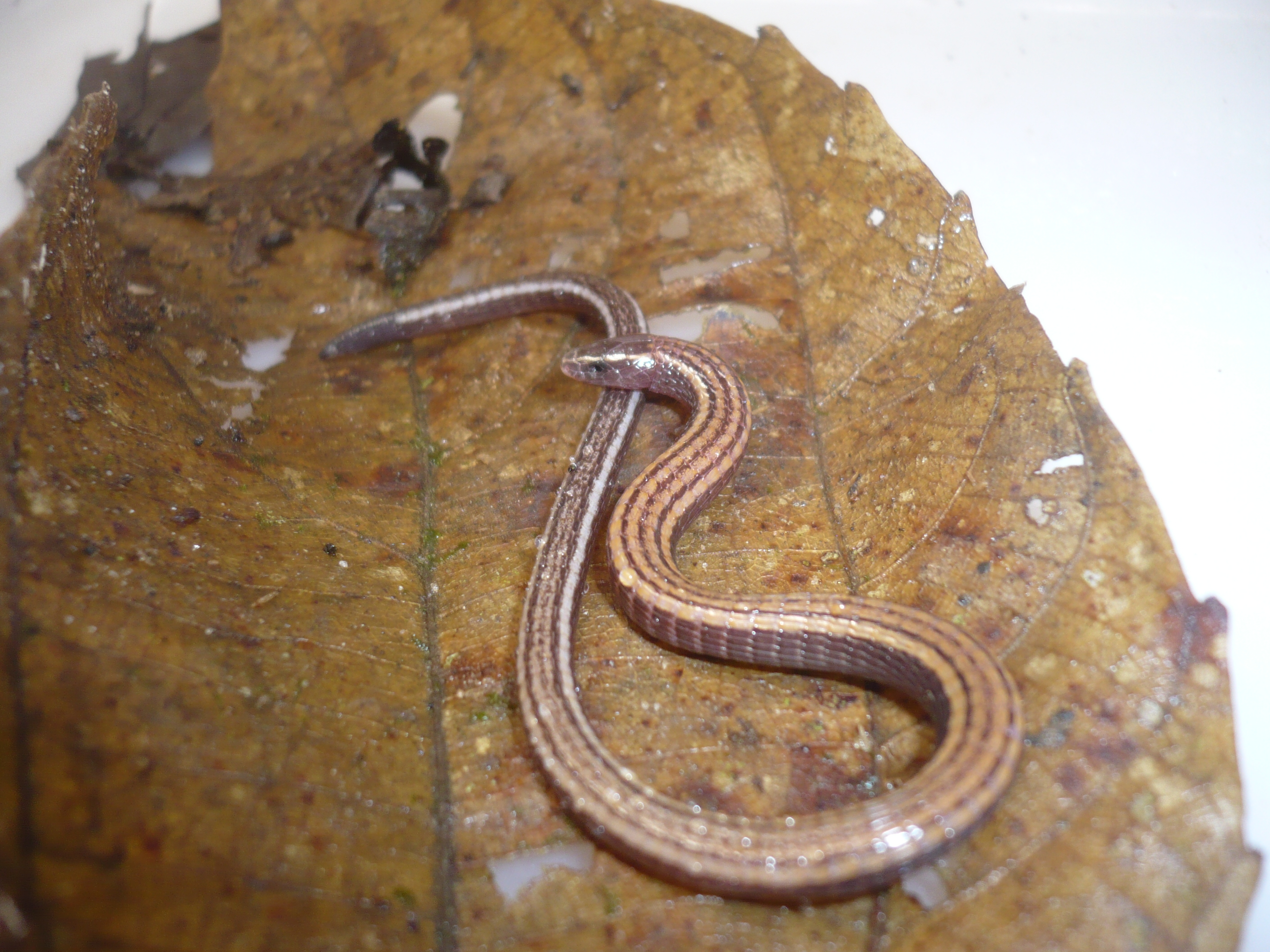 Bachia dorbignyi in Madre de Dios, Peru.